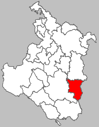 Location of municipality inside Karlovac County